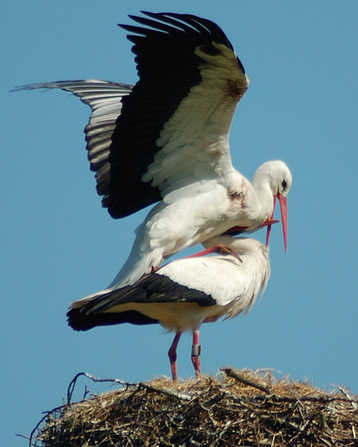 Wait for 1 hour, I take this shot. Taken in Warmond